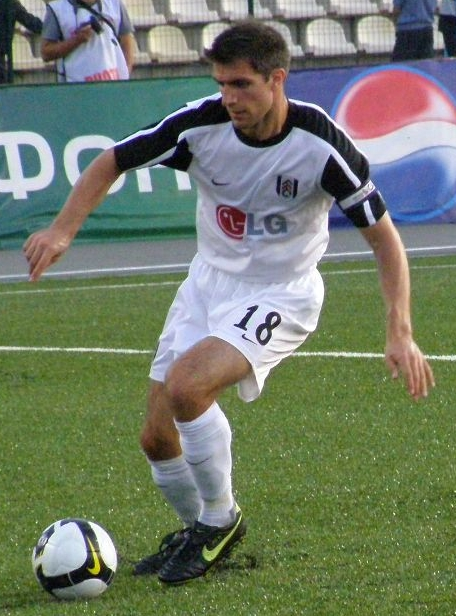 Aaron Hughes in action for Fulham F.C.